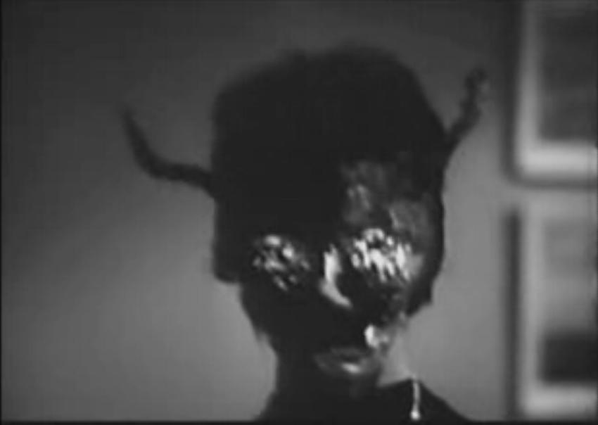 Susan Cabot in the American film The Wasp Woman (1959).